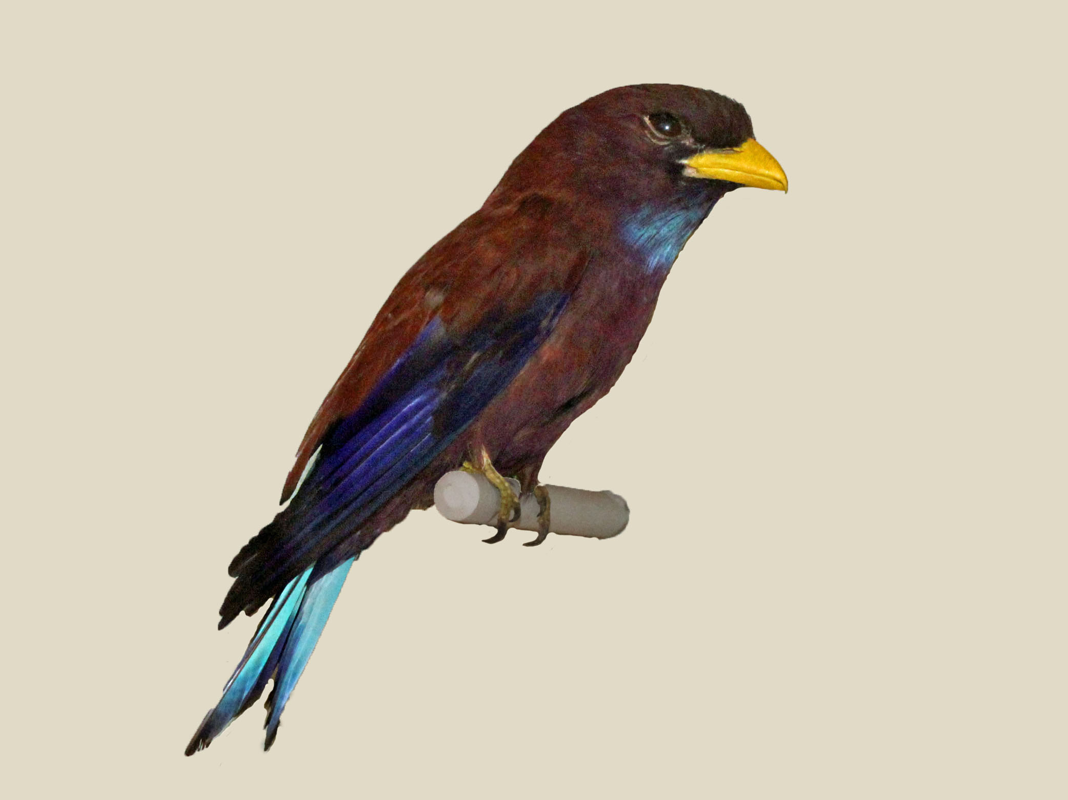 Blue-throated Roller (Eurystomus gularis). Photograph of a specimen at Nairobi National Museum in Nairobi, Kenya.